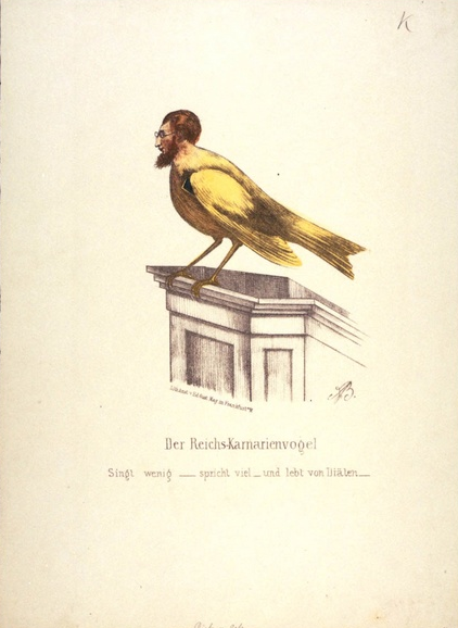 caricature of Gustav Adolph Rösler